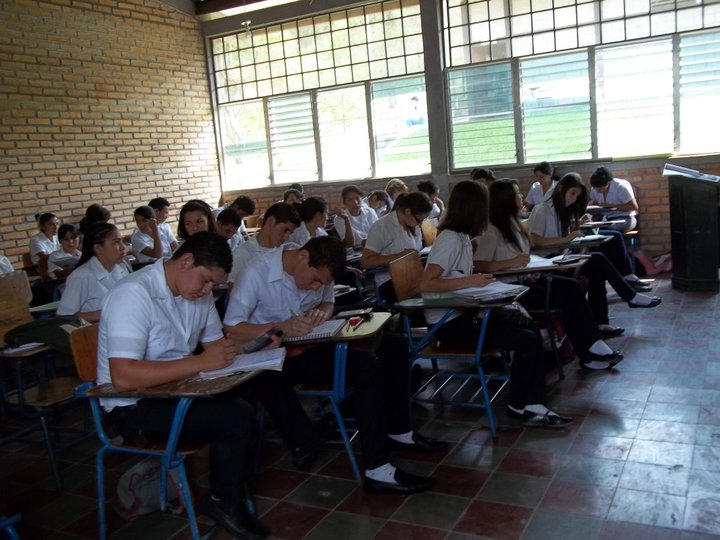 Alumnos ISMO "Instituto San Marcos (Ocotepeque)". Honduras, San Marcos, (Ocotepeque).